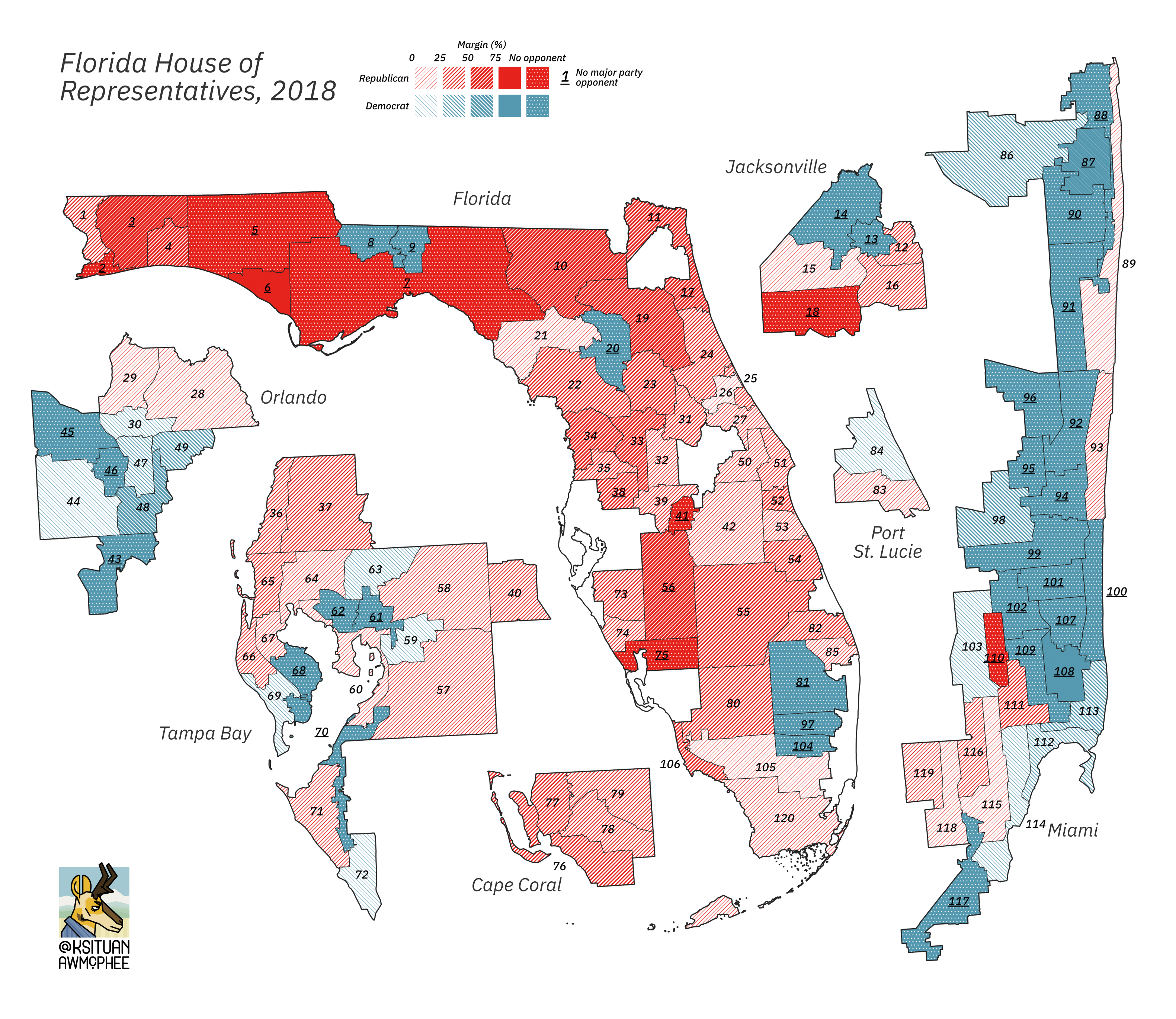 A series of state legislative election maps, created from open data during the summer of 2020. Their common visual style is designed to accomodate all of the unique features of American democracy. They were created using QGIS and Inkscape, two free programs. Please use freely and contact the author with any inquiries about visualizing election data with open-source tools.